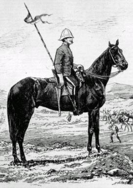 Cropped